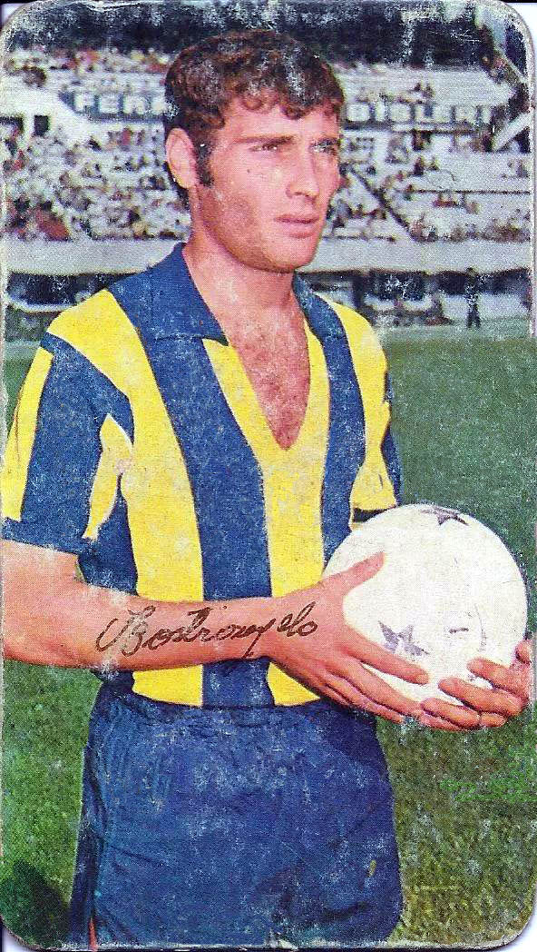 Ernesto Mastrángelo while playing for C.A. Atlanta.